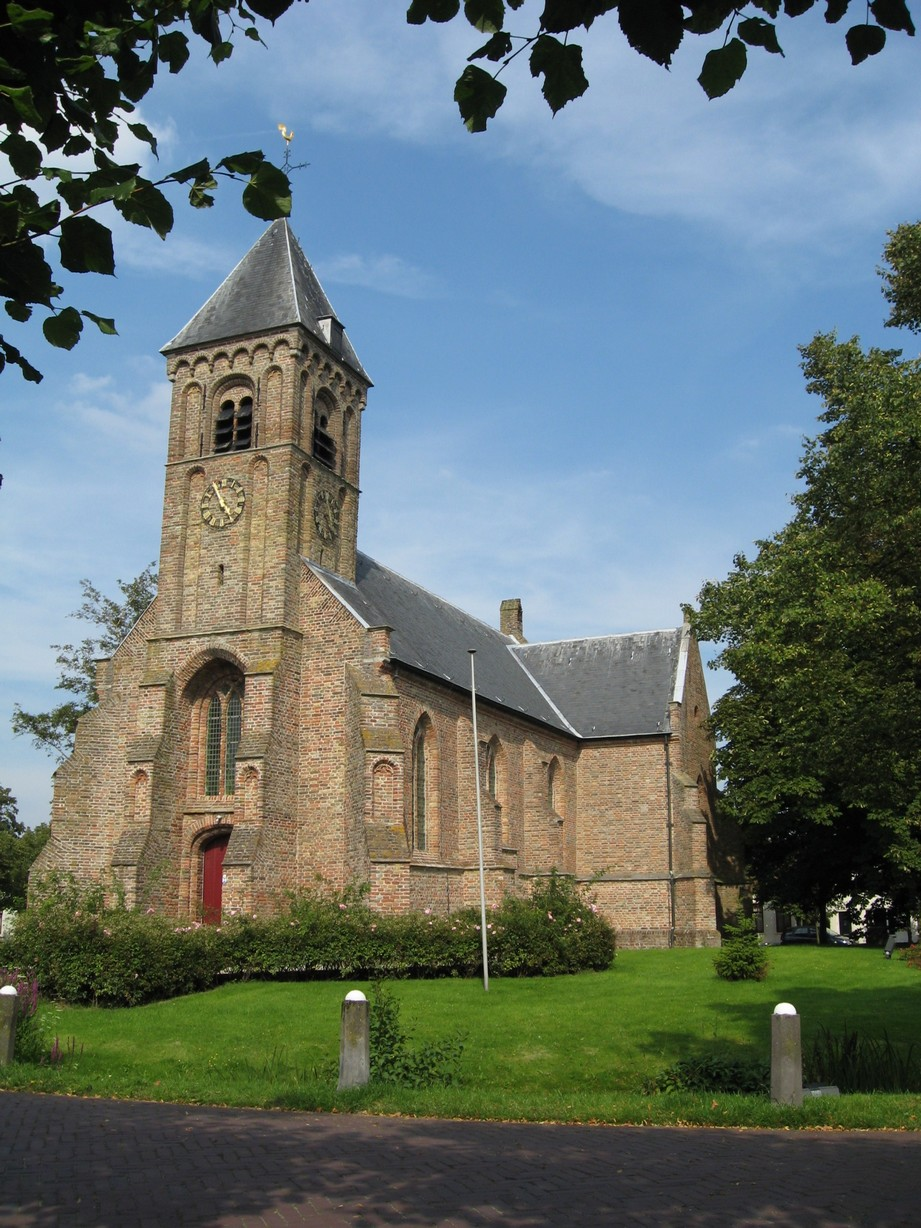 Church in Noordgouwe